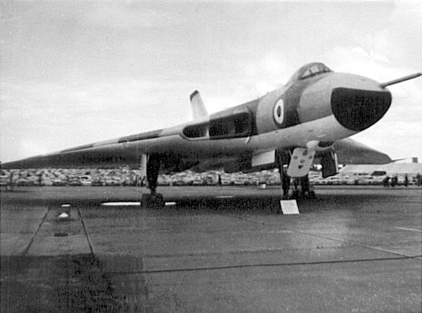 Author= Andy Buckley (Andywebby) source = own work Summary = an Avro Vulcan B1A V-bomber on display at one of the airshows held at Filton Aerodrome in the 1960s. The aircraft is parked on the easternmost of the rapid deployment aprons on the airfield used for dispersing V-bombers during the Cold War.